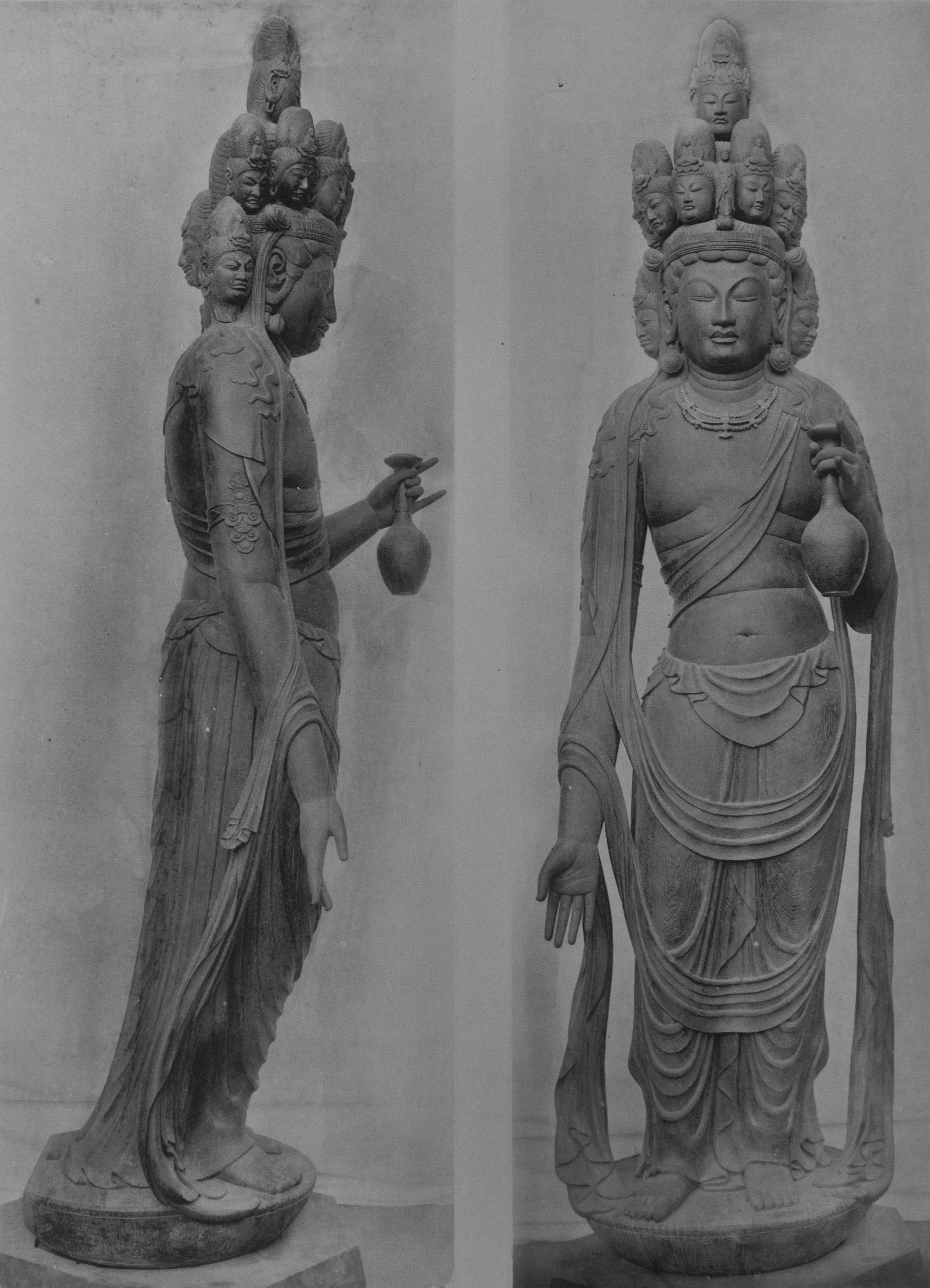 Kōgen-ji, Shiga, Japan